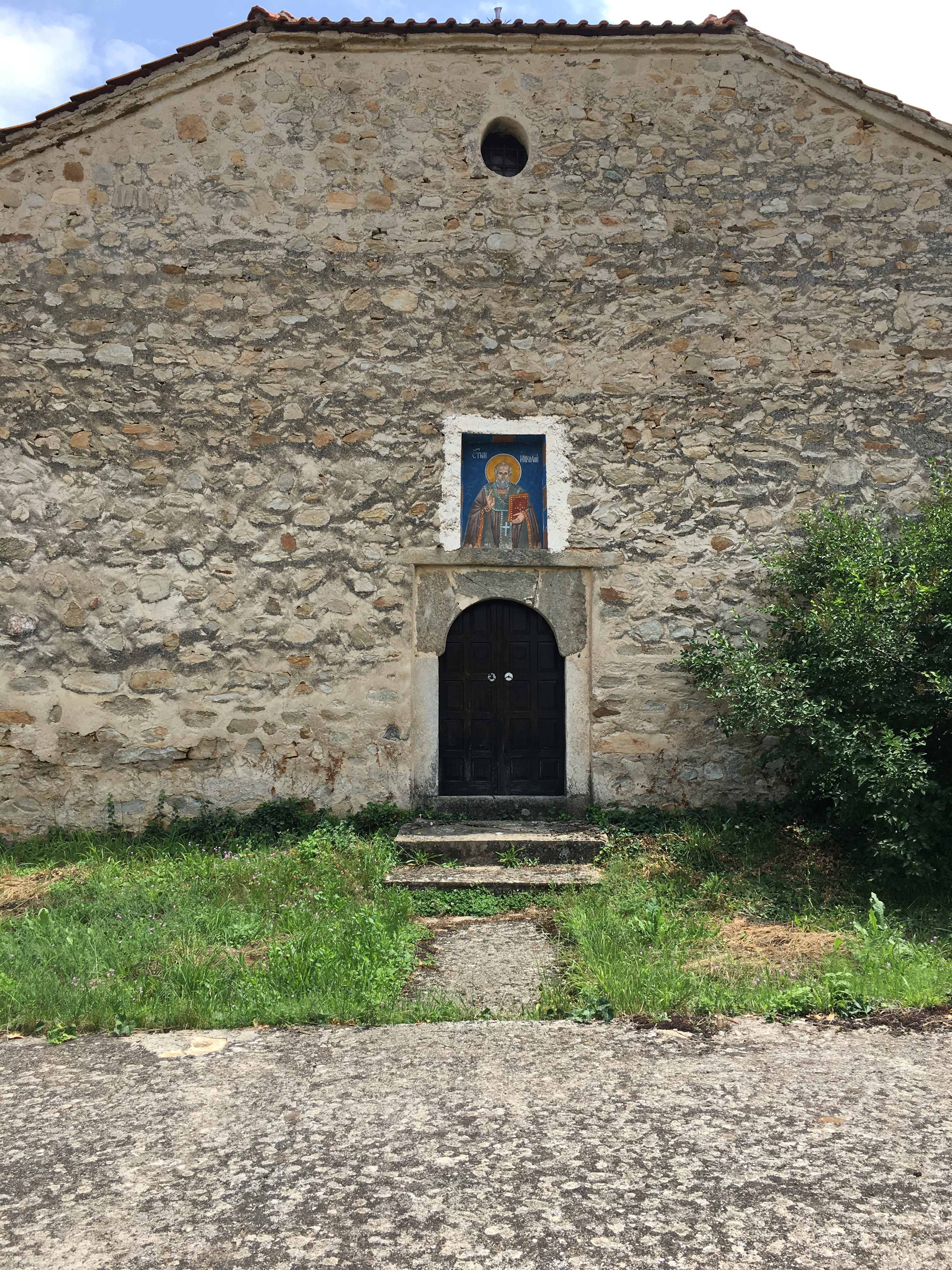 The front side of the St. Nicholas Church in the village of Oraov Dol